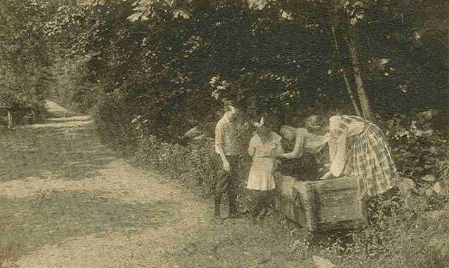 A wayside drinking trough on the Wilton Road, Mason, New Hampshire